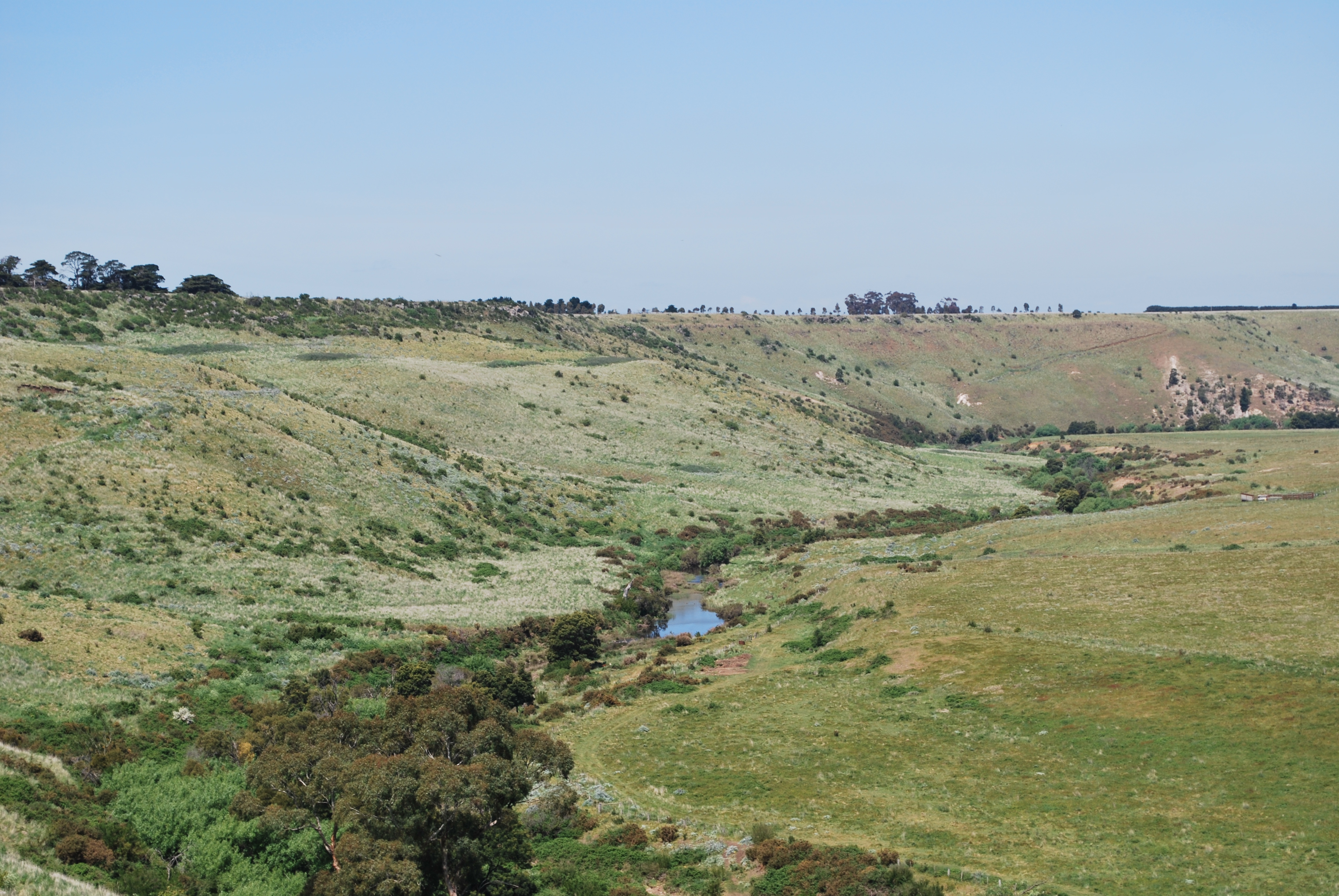 The Jacksons Creek valley near Clarkefield, Victoria